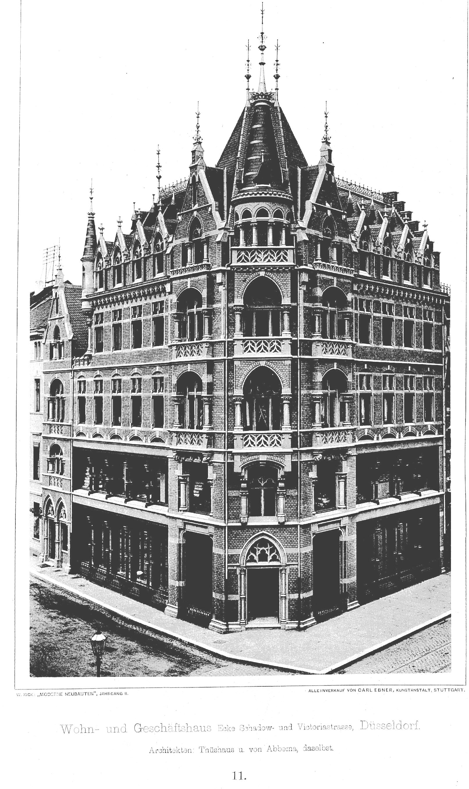 Wohn-_und_Geschäftshaus_Ecke_Schadow-_und_Victoriastraße,_Düsseldorf,_Architekten_Thüshaus_und_von_Abbema,Düsseldorf_Tafel_11,Kick_Jahrgang_II.jpg